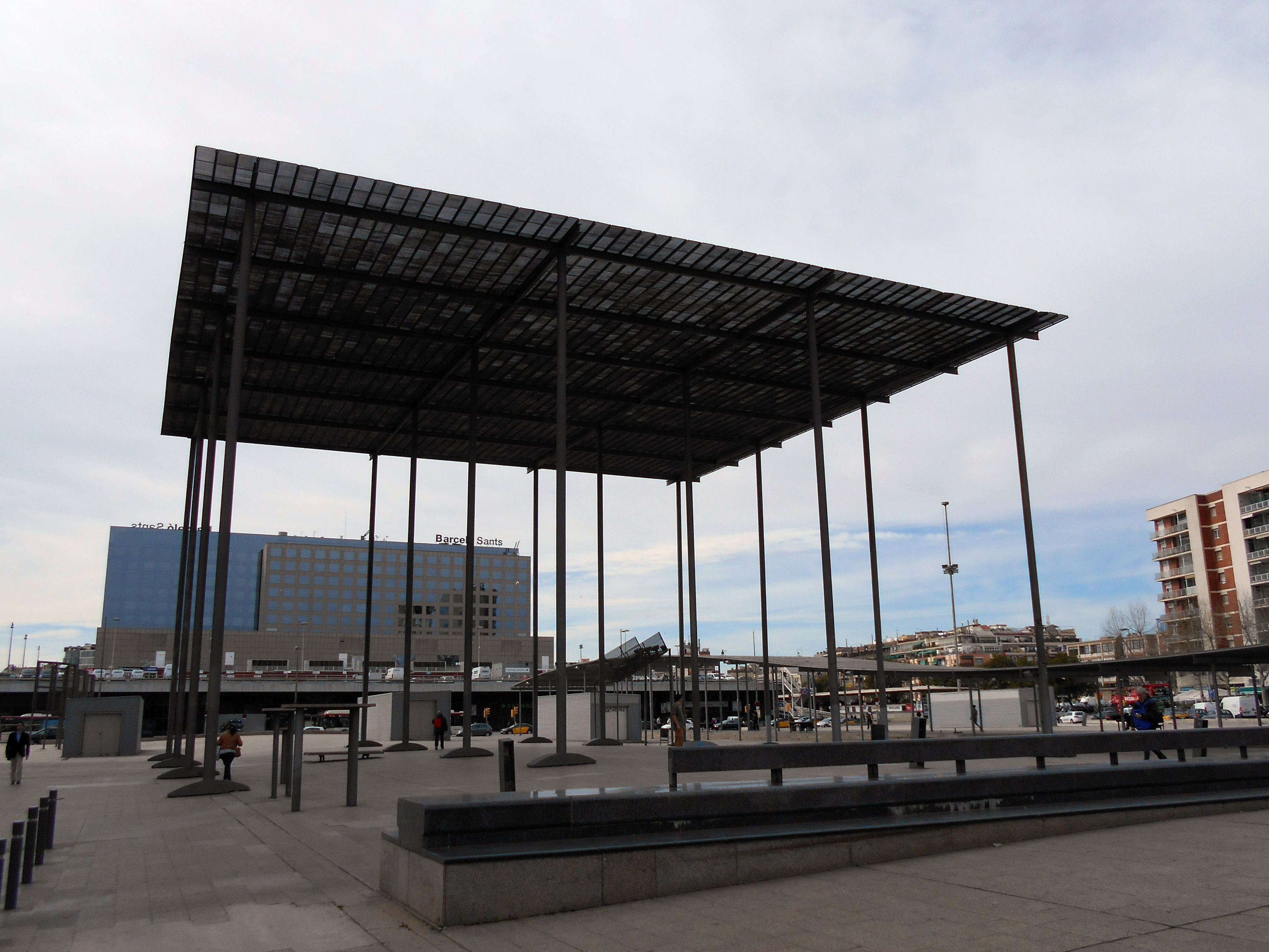 Plaça dels Països Catalans (Barcelona, Catalonia, Spain).